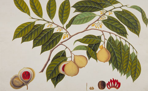 A watercolour drawing of a nutmeg plant (Myristica fragrans; known in Malay as the pokok pala). The drawing is one of 477 natural history drawings of plants and animals of Malacca and Singapore commissioned by William Farquhar.